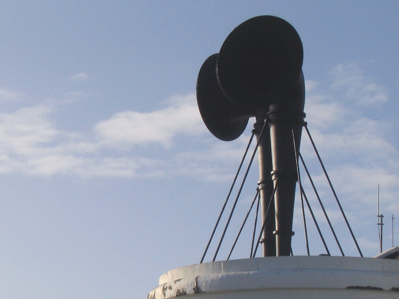 Foghorns near Lizard Point, Cornwall